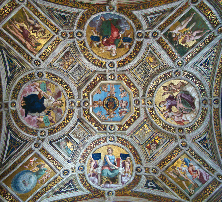 Vatican Museums, Vatican City. A ceiling in the Raphael Rooms.